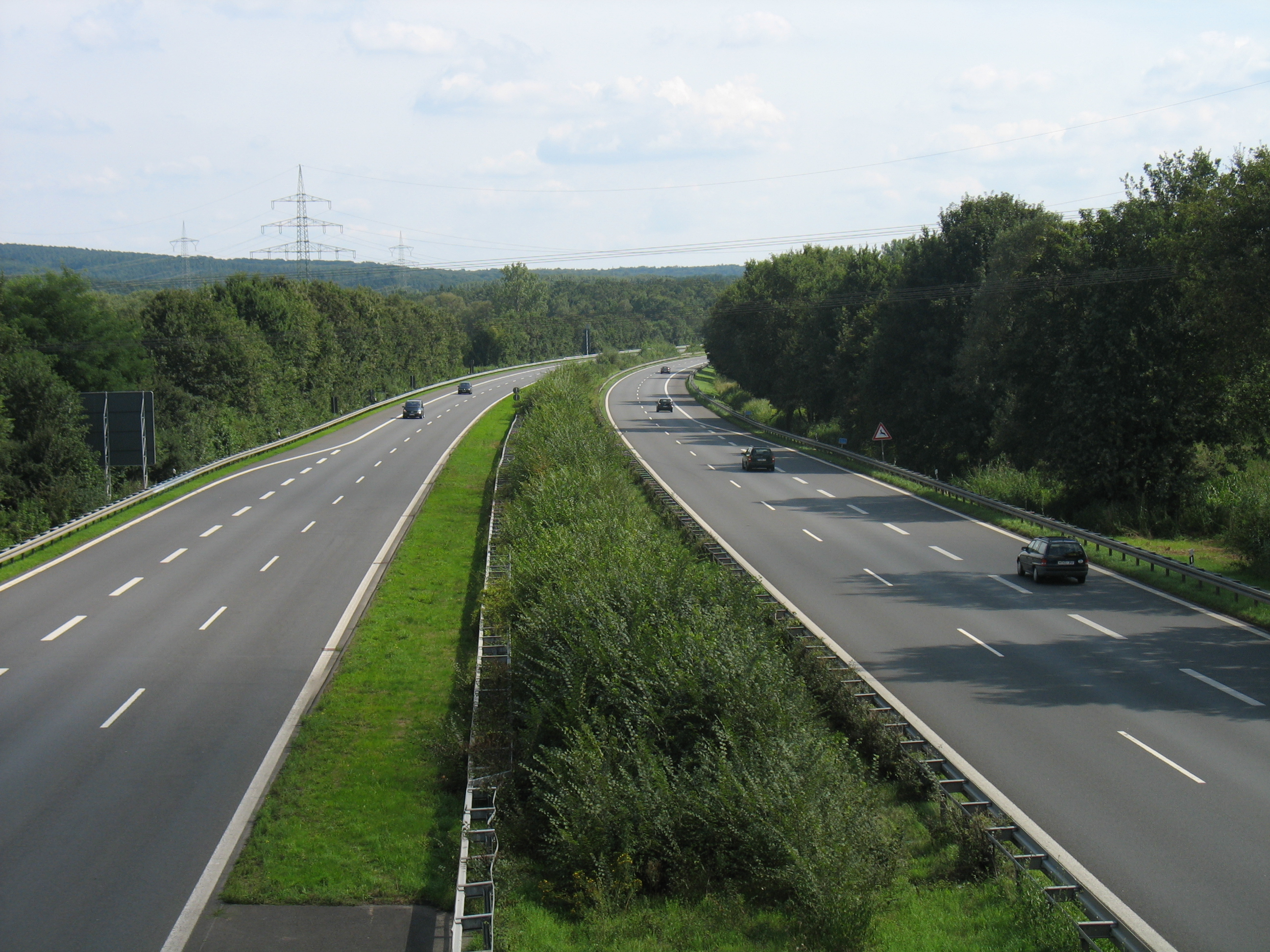 Motorway A45 near Karlstein, Germany. The wide central reservation was put in place to allow the addition of extra lanes if and when need arises in the future.